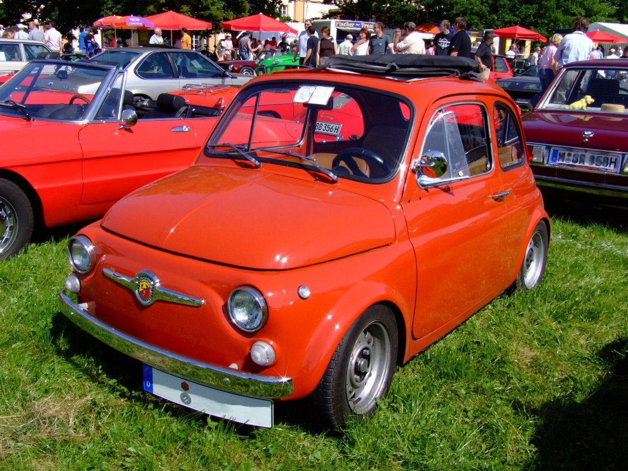 Abarth-Fiat 500